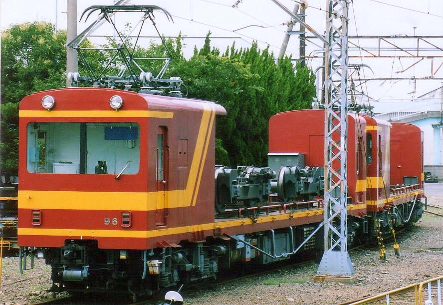 Kinki Nippon Railway Type Moto-96 Electric Cargo-Gondola.(Japan).